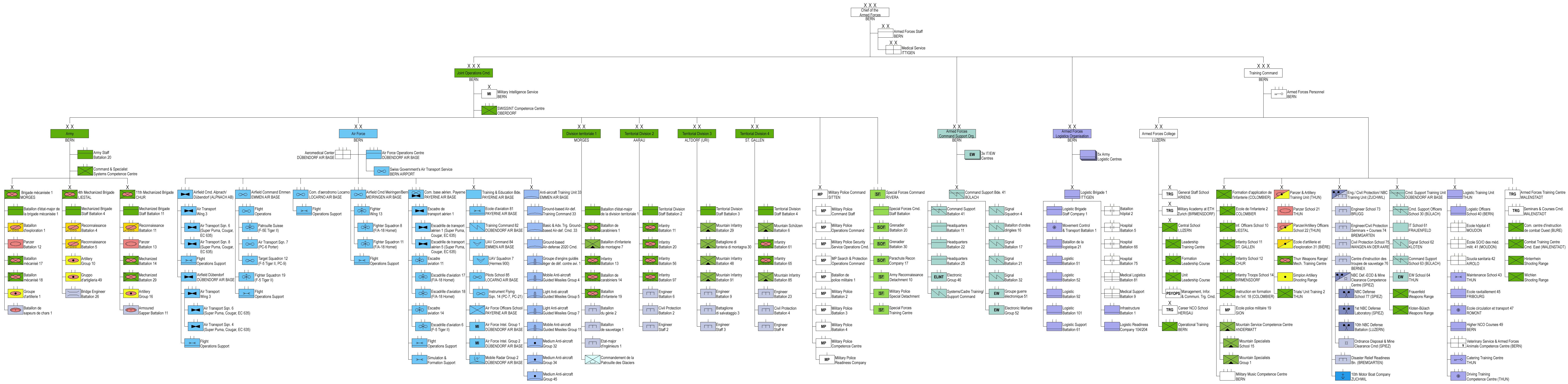 New Structure of the Swiss Armed Forces after the 2017 "Weiterentwicklung der Armee" reform.